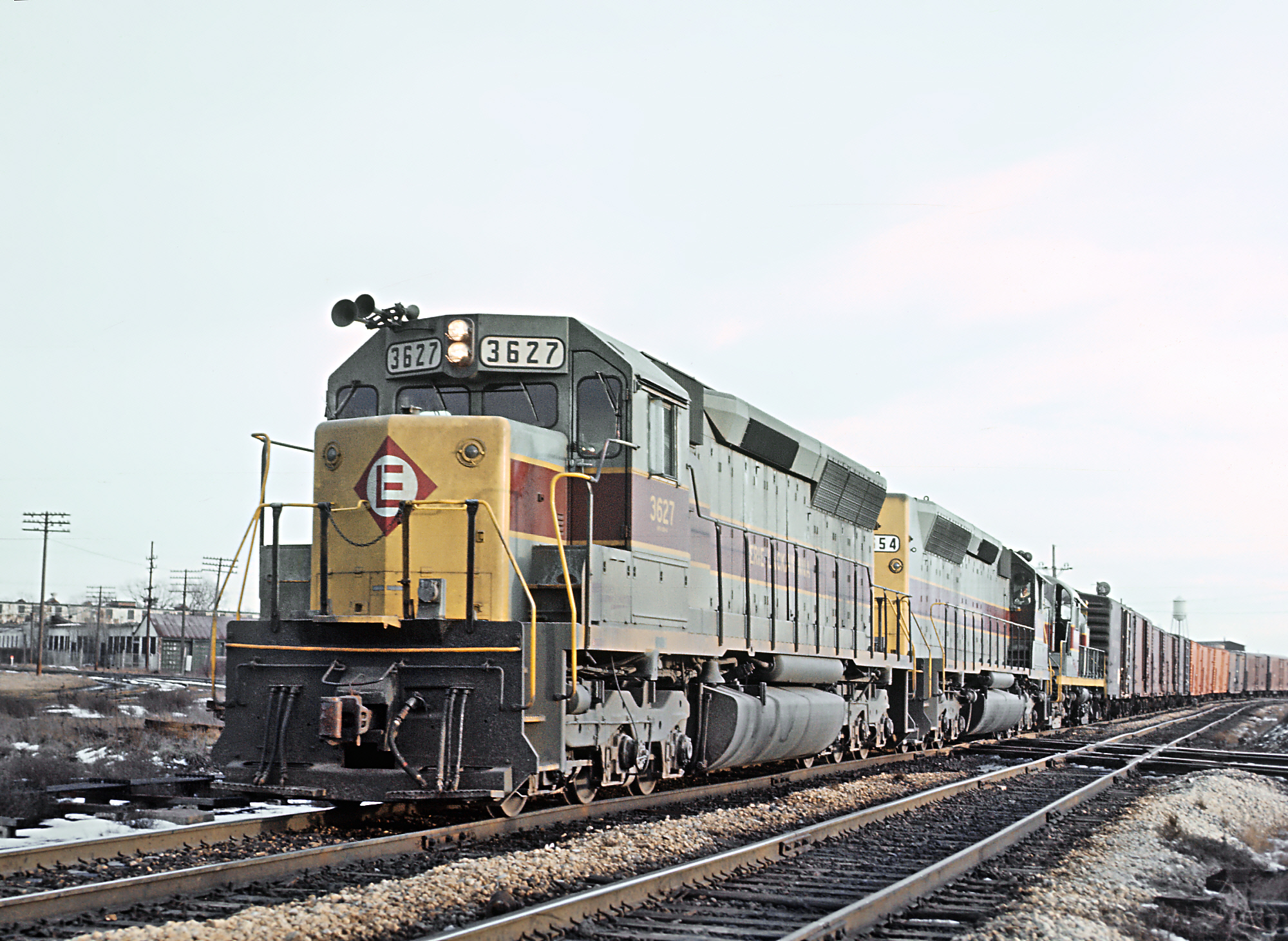 State Line Tower (Indiana-Illinois), crossing the B&OCT, northbound. Chicago, Illinois. A Roger Puta Photograph